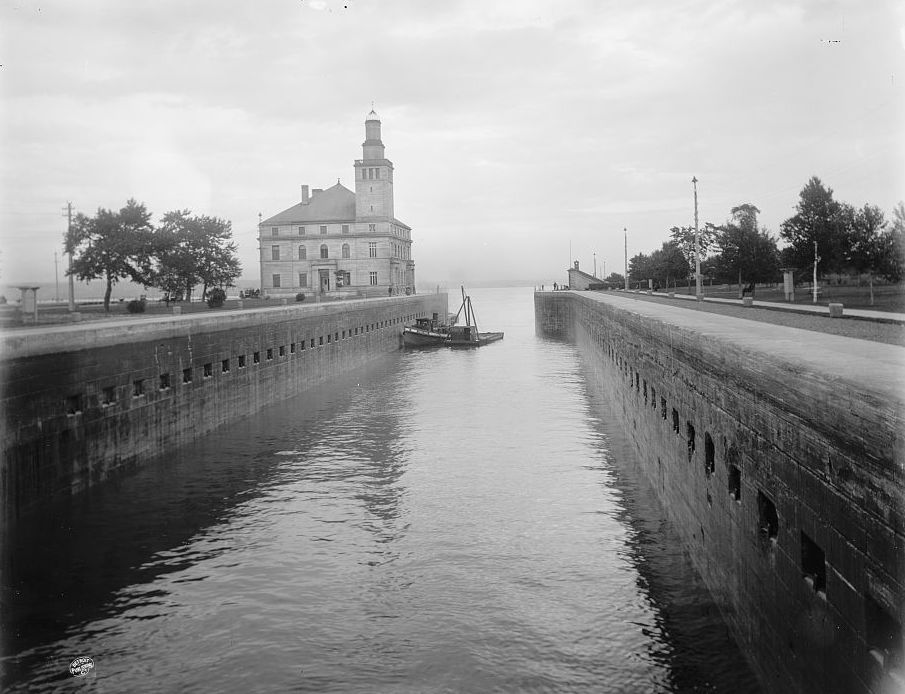 Weitzle [i.e. Weitzel] Lock, Sault Ste. Marie Reproduction Number: LC-DIG-det-4a07086 (digital file from original) Rights Advisory: No known restrictions on publication. Call Number: LC-D4-11311 [P&P] Repository: Library of Congress Prints and Photographs Division Washington, D.C. 20540 USA